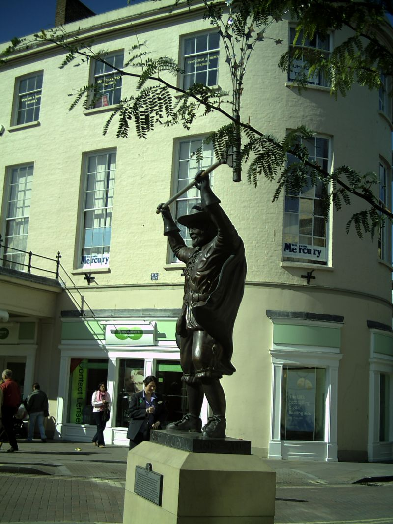 Squibber's monument - Bridgwater